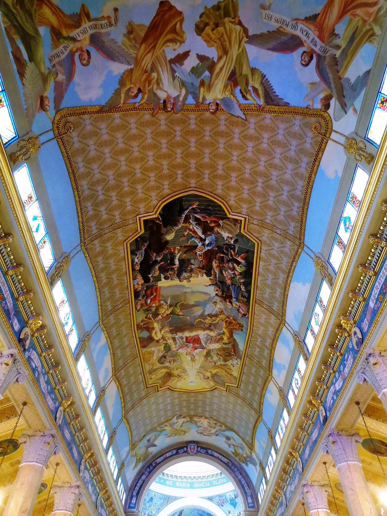 Navata centrale del Santuario.